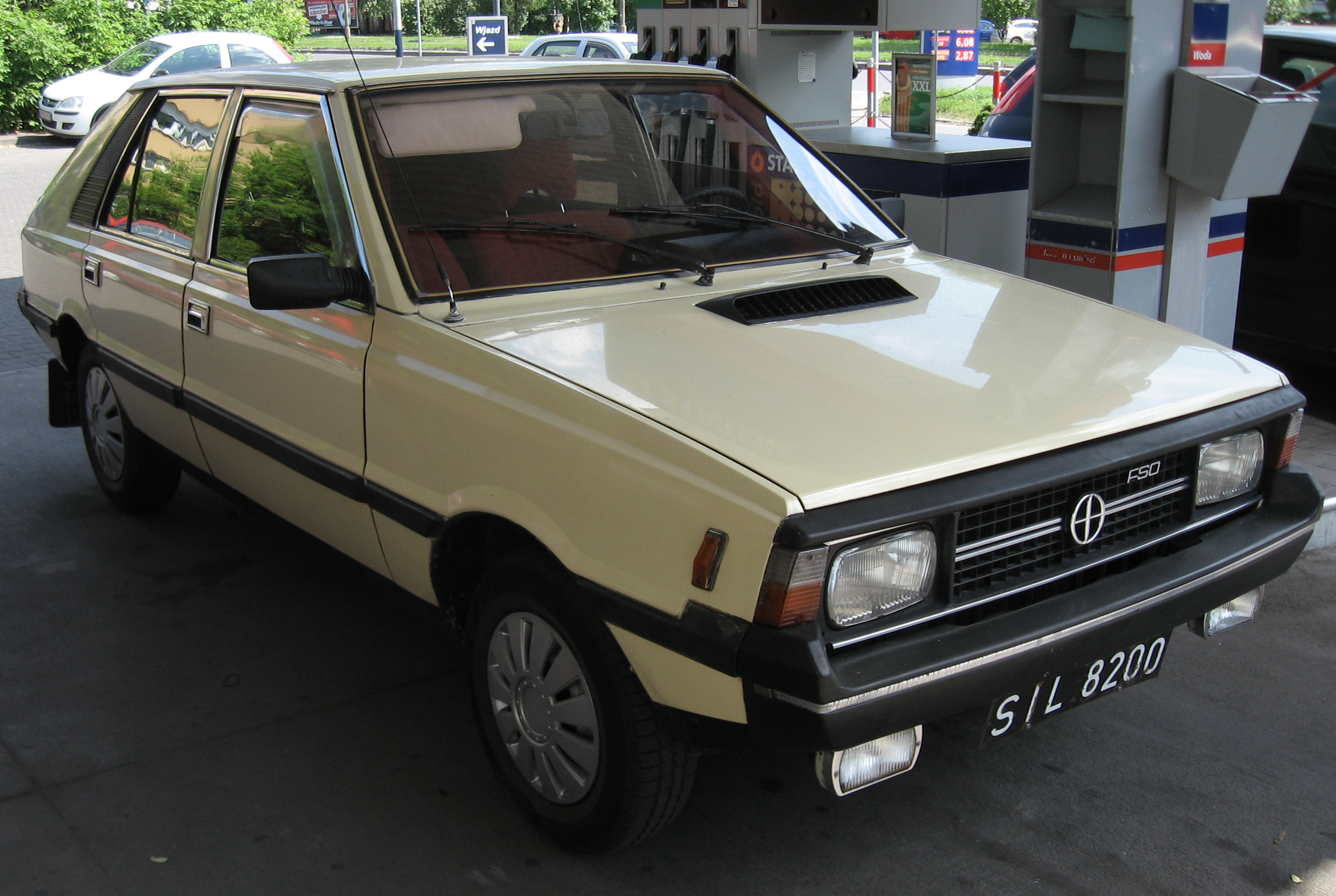 Beige FSO Polonez MR'83 1.5 L with rectangular headlights, produced in 1983, at a petrol station in Kraków.